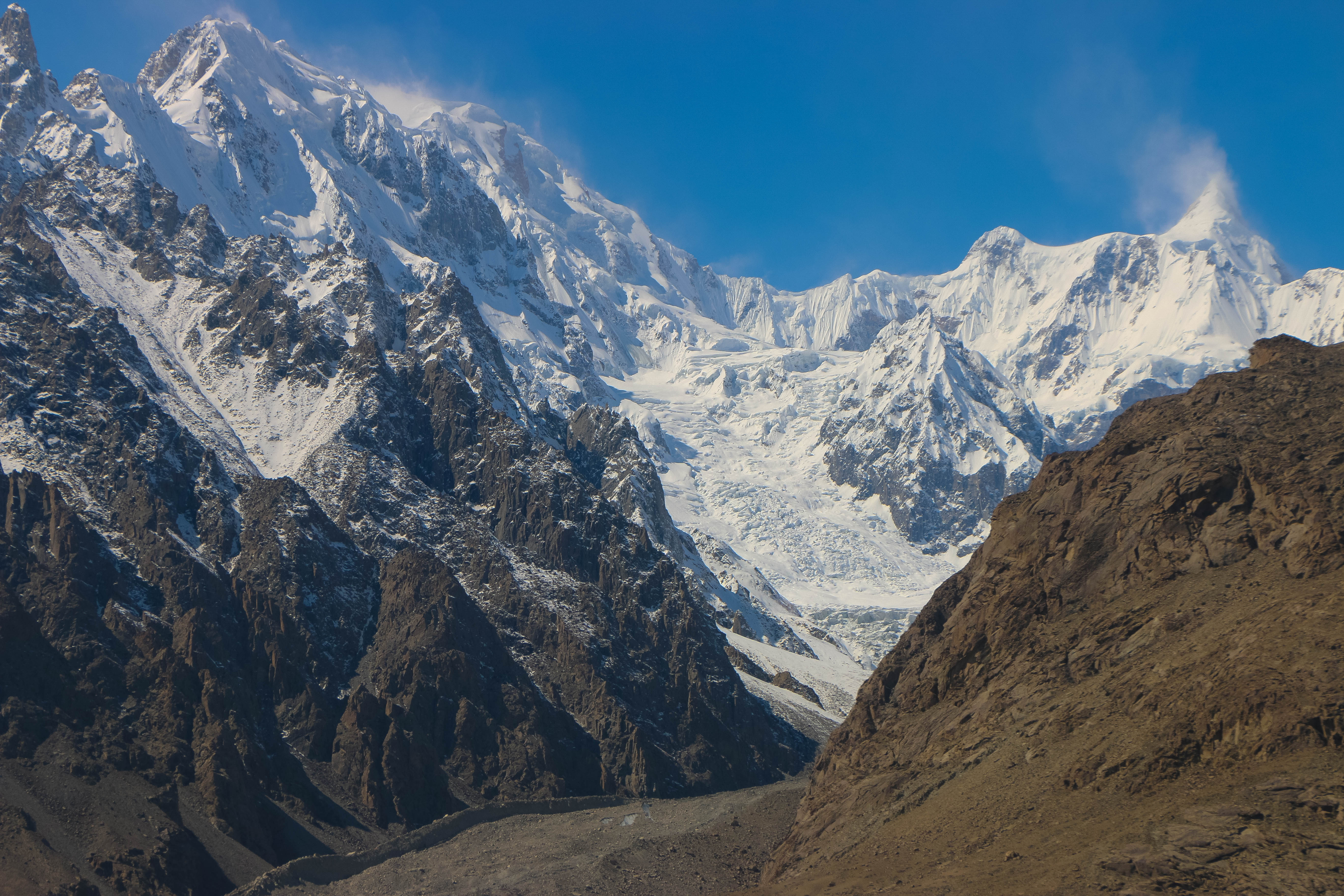 Gulmit Glacier is a glacier named after the town of Gulmit on Karakorum Highway.